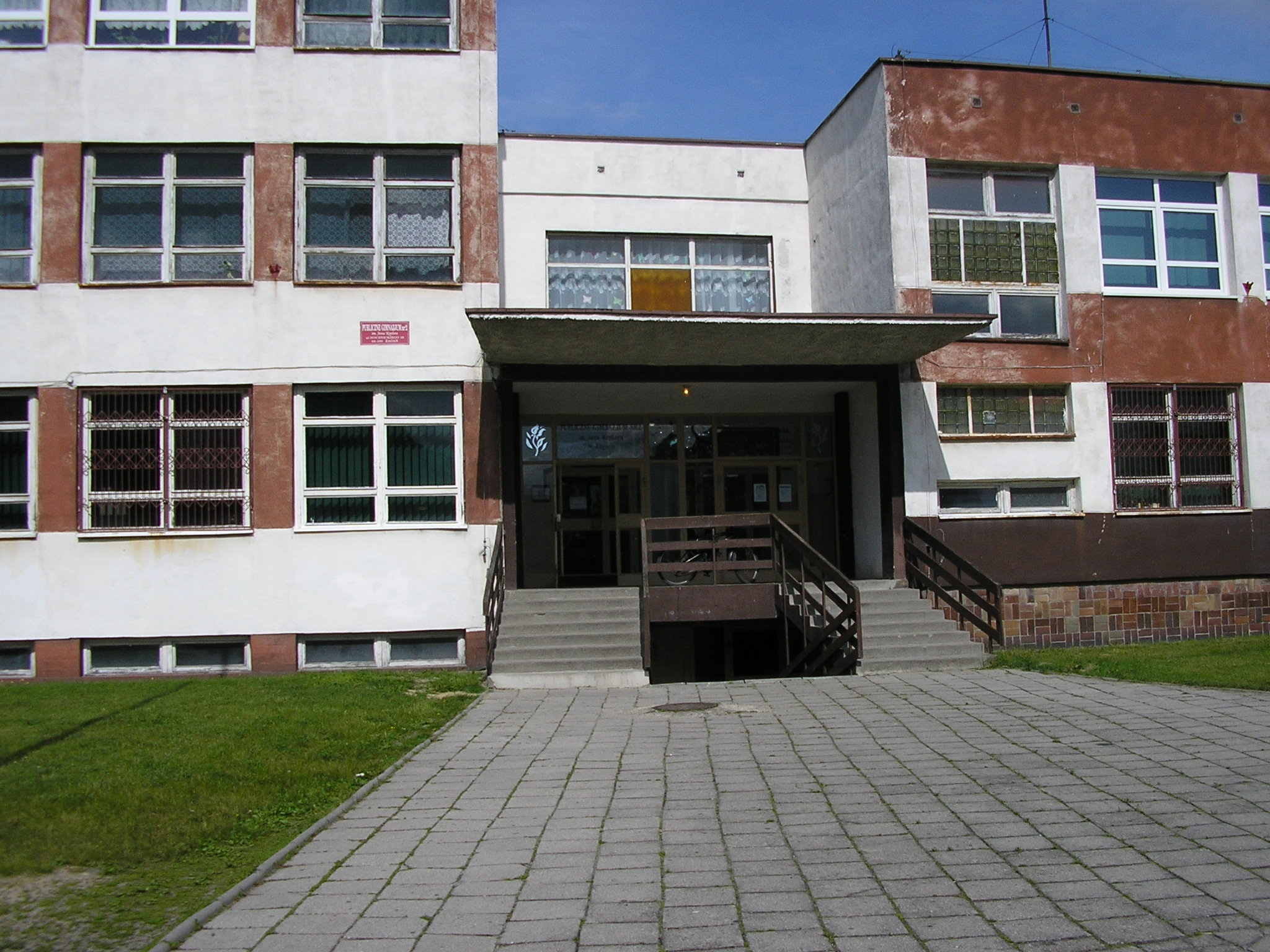 Publiczne Gimnazjum nr 2 w Żaganiu. I'm author of this work.